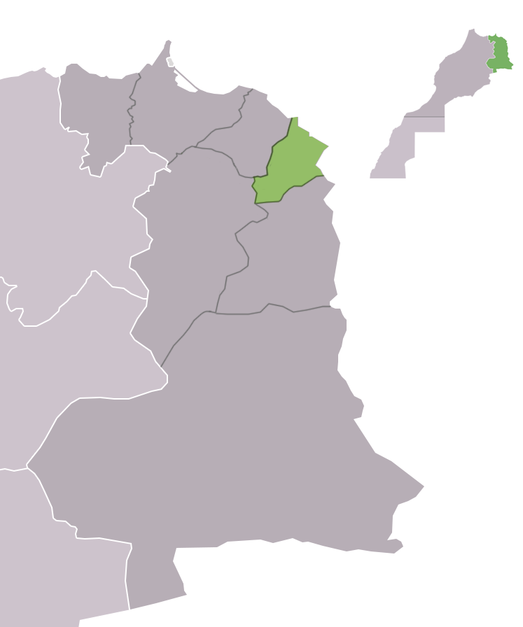 Oujda Perfecture, Oriental Region, Morocco